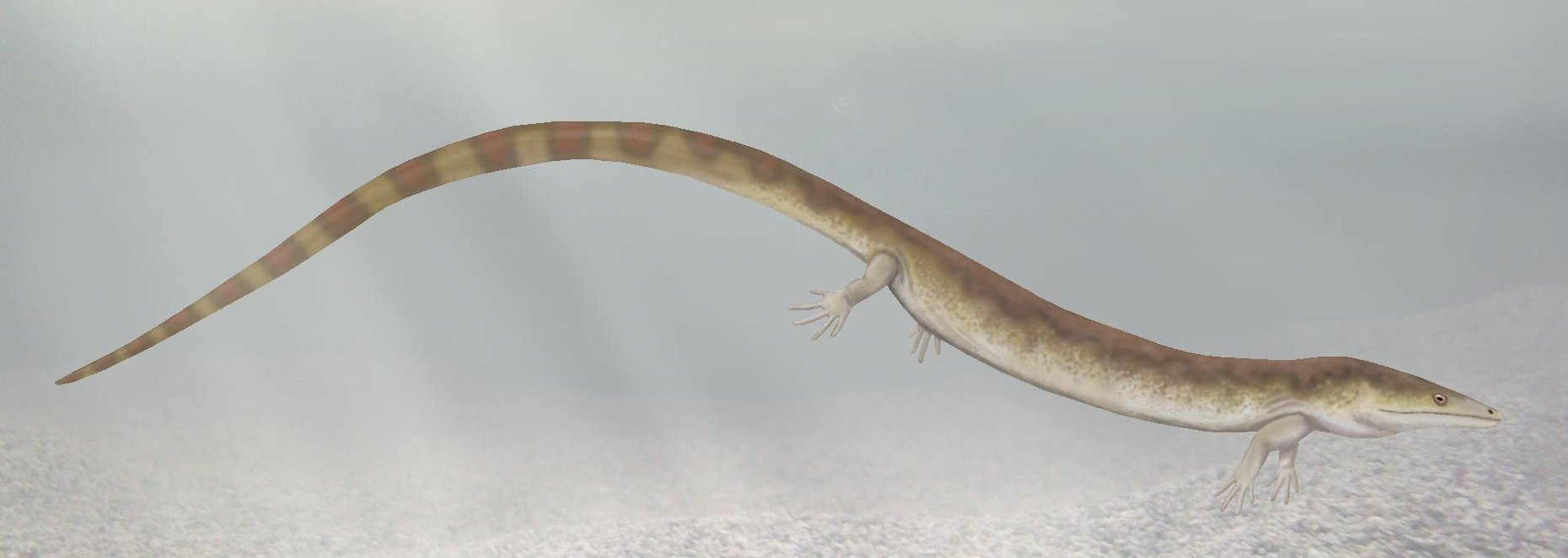 Crop of file in filename